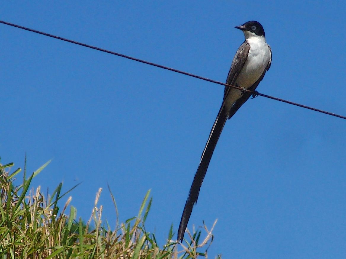 Fork-tailed Flycatcher - (Tyrannus savana) - Tesourinha. Avaré (Brazil).